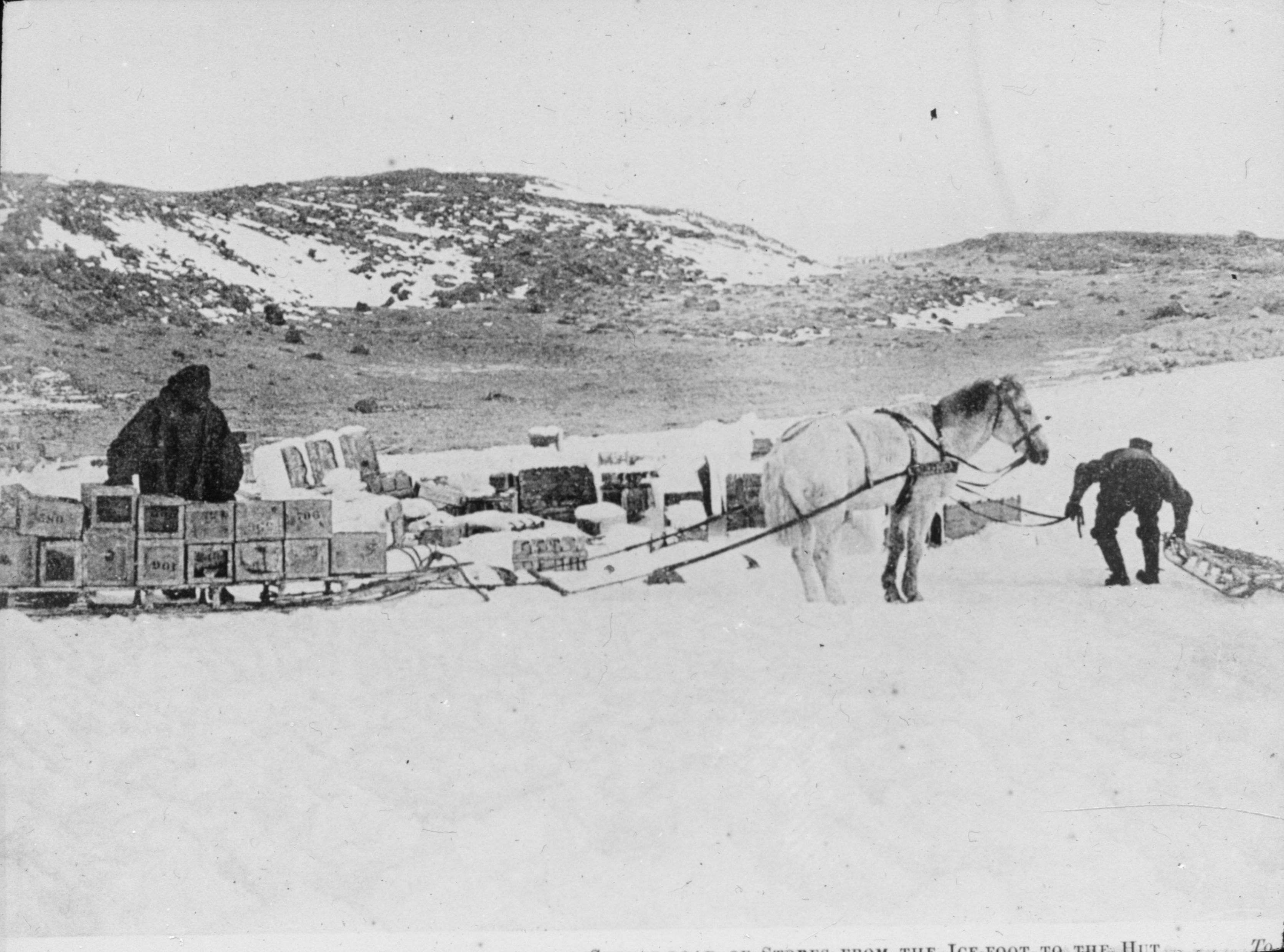 Photographs of the Nimrod Expedition (1907-09) to the Antarctic, led by Ernest Sheckleton